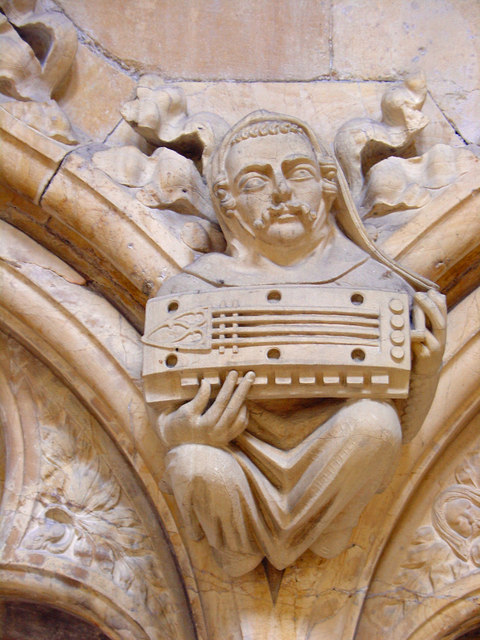 Symphonia player: Beverley Minster, Beverley, East Riding of Yorkshire, England.One of over 70 medieval carvings in the section known as "The Guild of Musicians".